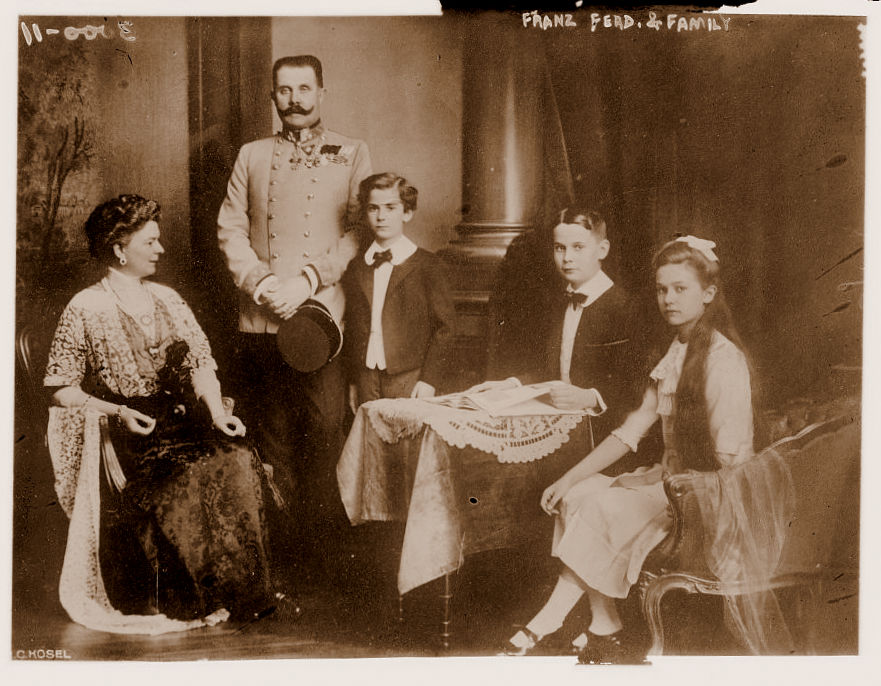 Princess Sophie of Hohenburg and family (image has been altered by User:Sardaka to make it sepia, 2015-7-14)